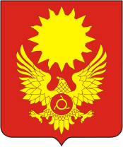 Coat of arms of Magas, Ingushetia, Russia